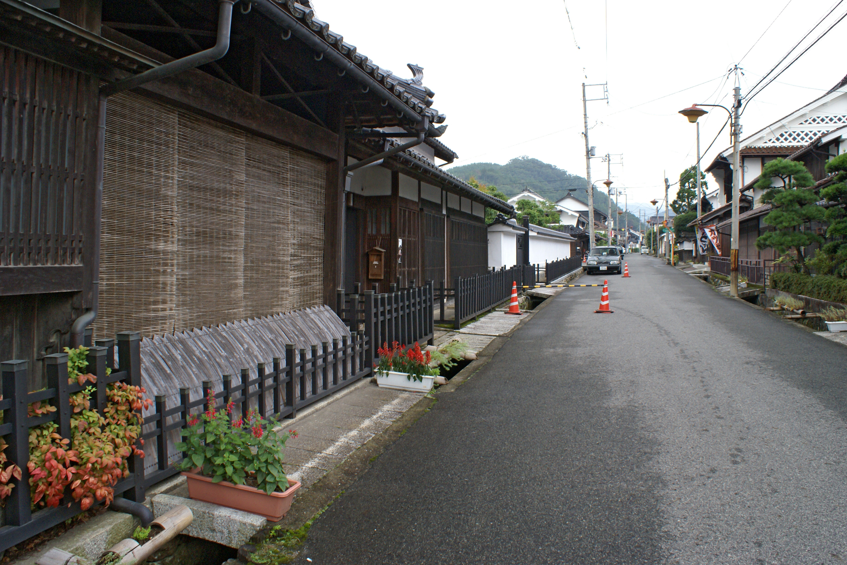 a street scene of Ohara-juku in Mimasaka, Okayama prefecture, Japan